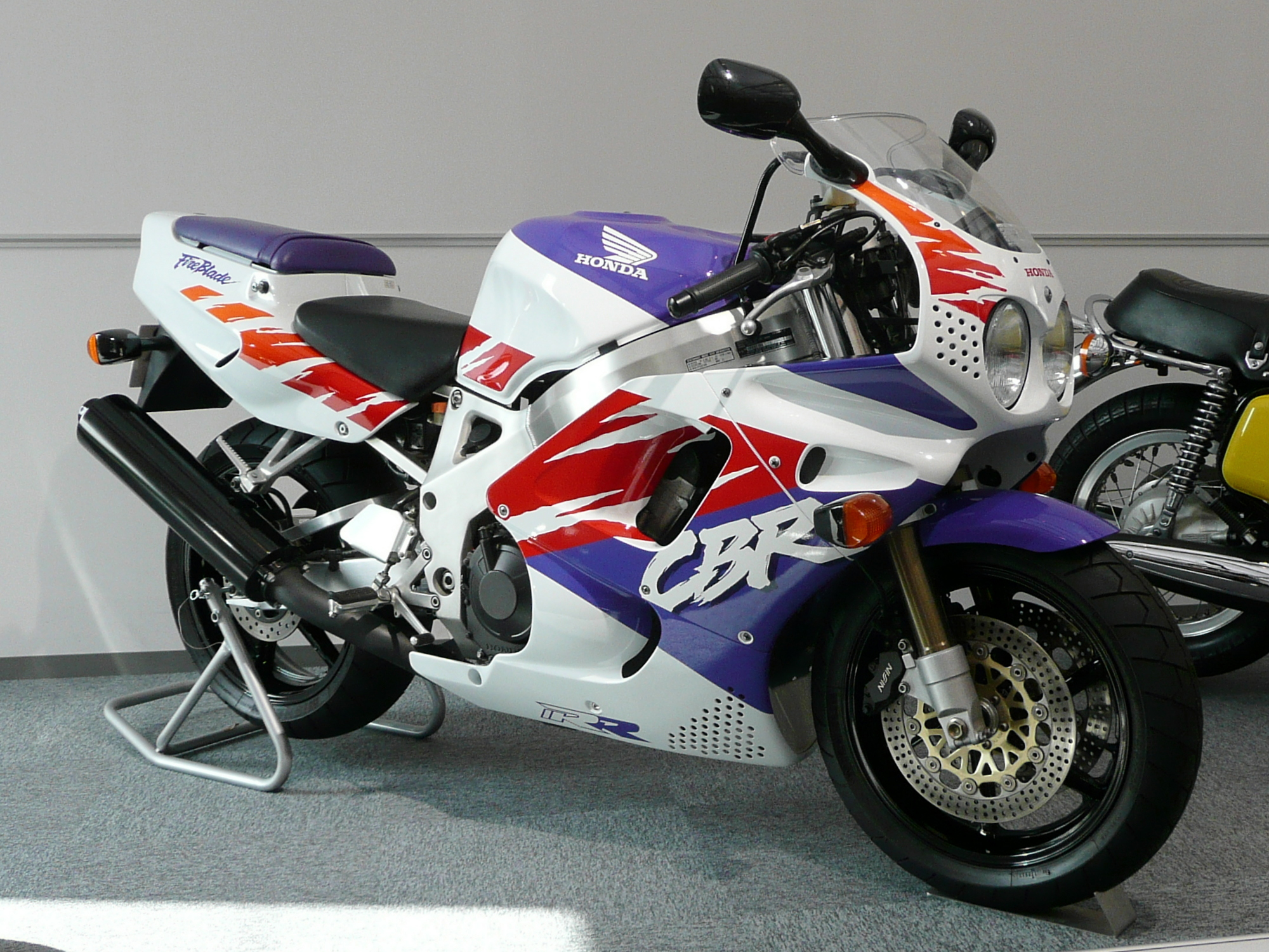 HONDA CBR900RR Fireblade 1992